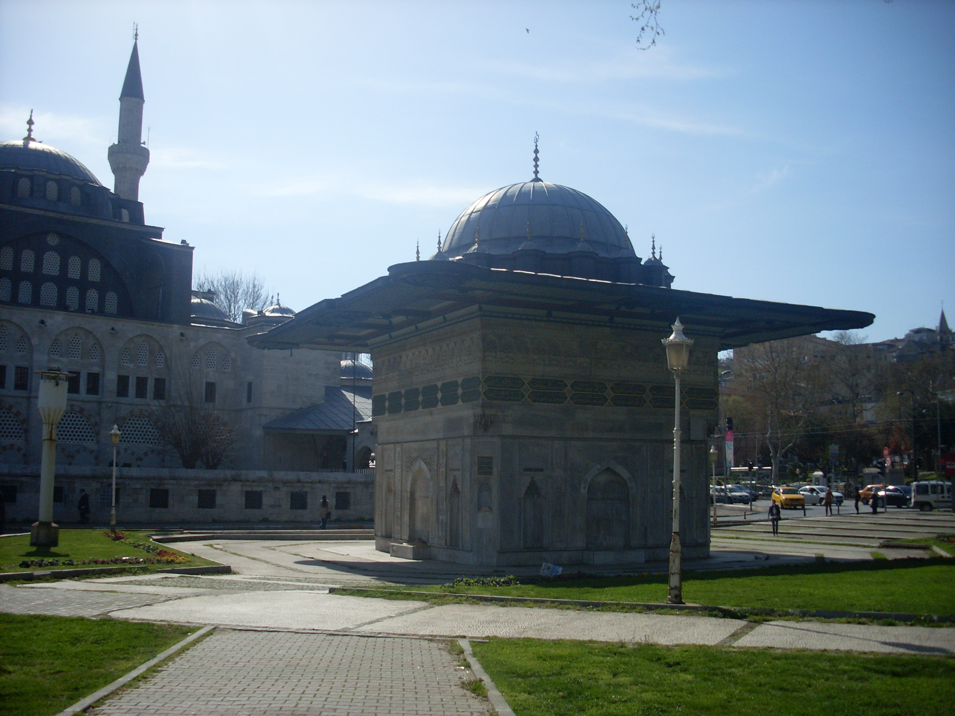 Tophane Fountain & Kılıç Ali Pasha Mosque